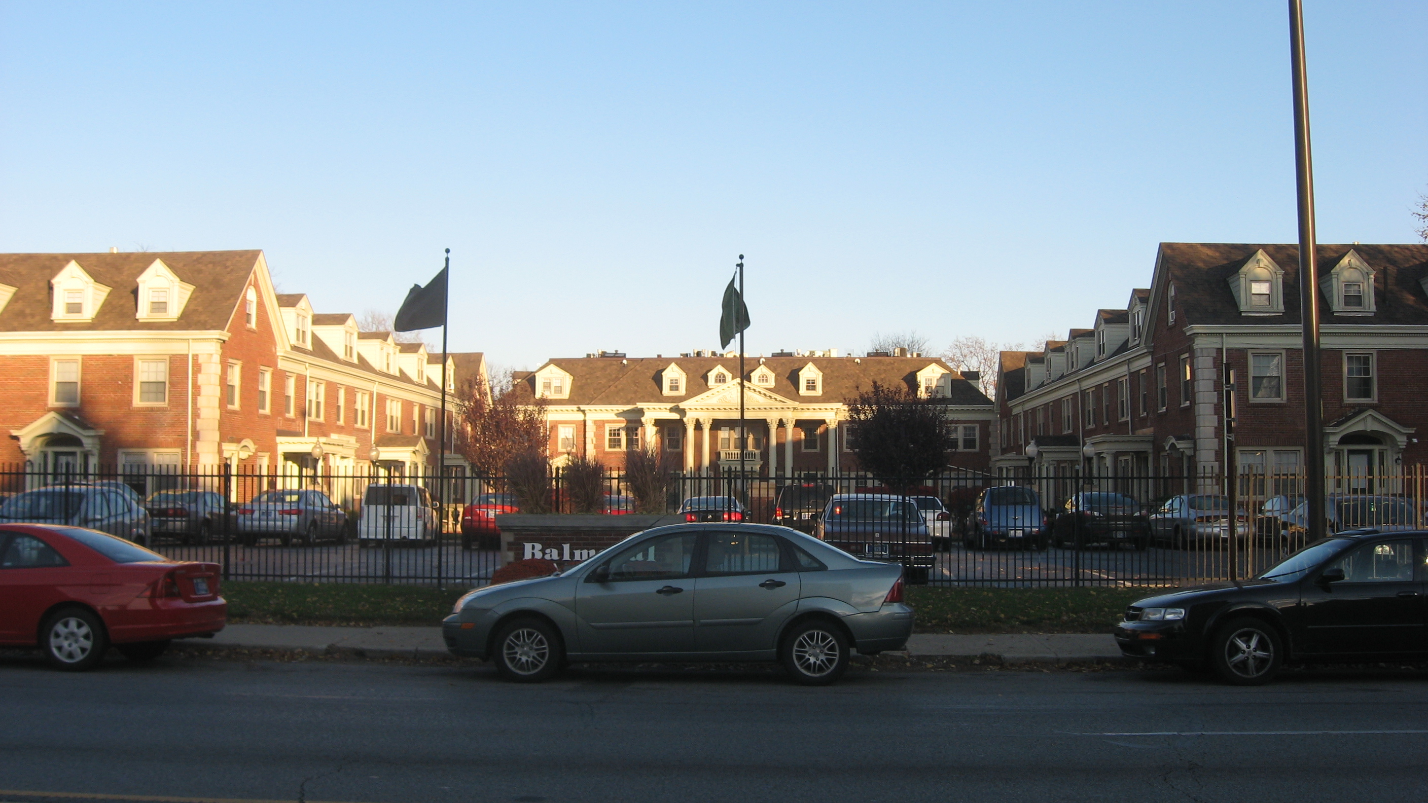 Front of Balmoral Court, located at 3055 N. Meridian Street in Indianapolis, Indiana, United States. Built in 1916, it is listed on the National Register of Historic Places.